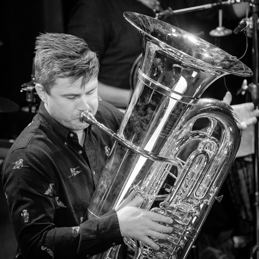 Daniel Herskedal at Victoria Teater. The concert took place on 07. December 2017 in Oslo. Lineup:Daniel Herskedal (tuba and trumpet)Eyolf Dale (piano)Helge Andreas Norbakken (percussion)Bergmund Waal Skaslien (viola)John Ehde (cello)